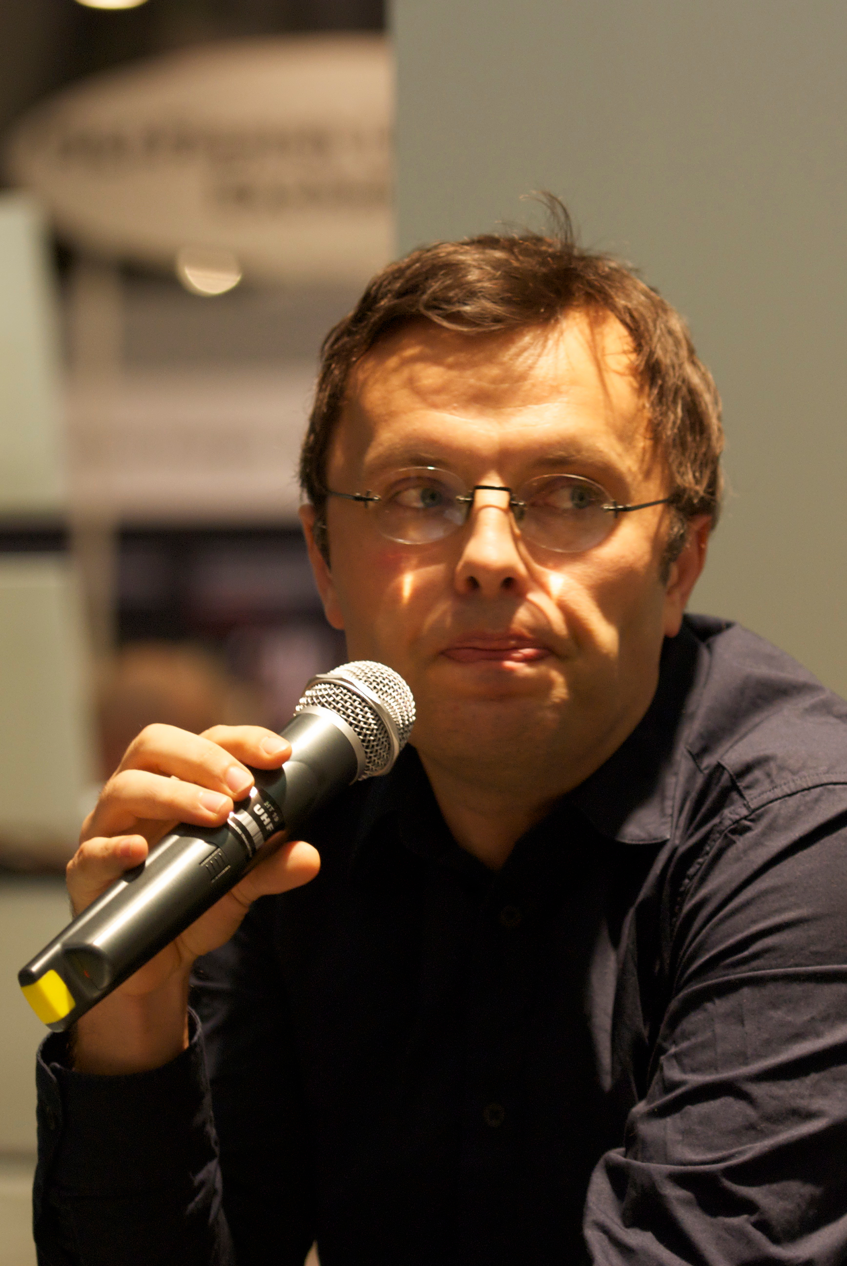 Richard Obermayr at Göteborg Book Fair 2011.